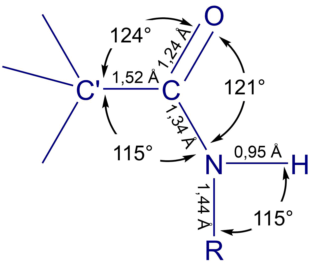 Amide group structure as taken from The Chemistry of Amides / Ed. Jacob Zabitsky. — Interscience Publishers, 1970. — ISBN 0471980498. — P. 2